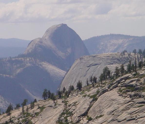 Image of Half Dome in Yosemite National Park. Picture was taken from a peak above Tioga Road (which is north of Half Dome).